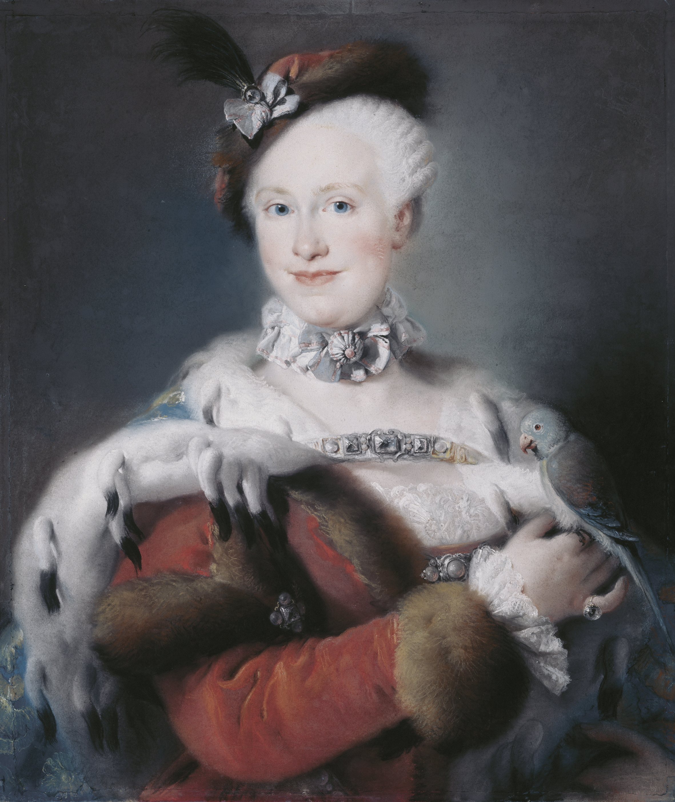 Portrait of Maria Luisa of Spain (1745-1792)